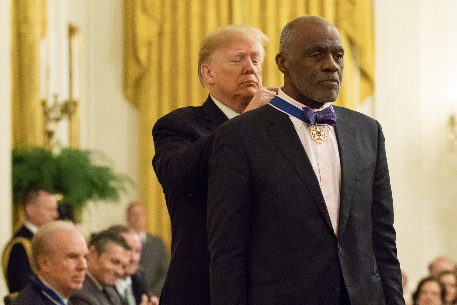 President Donald J. Trump presents the Medal of Freedom to Alan Page Friday, Nov. 16, 2018, in the East Room of the White House. (Official White House Photo by Andrea Hanks)